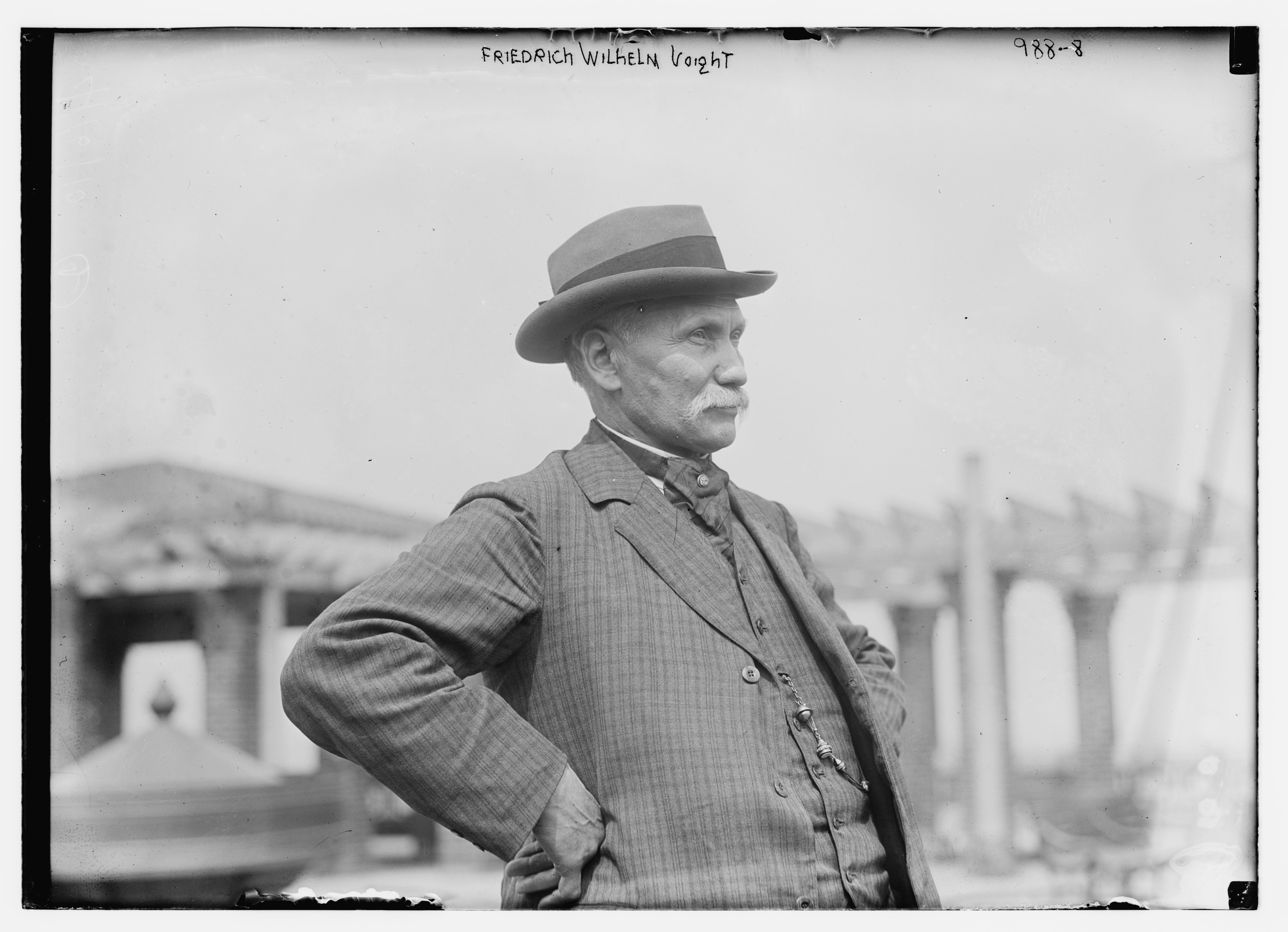 Title: Friedrich Wilhelm Voight Abstract/medium: 1 negative : glass ; 5 x 7 in. or smaller.